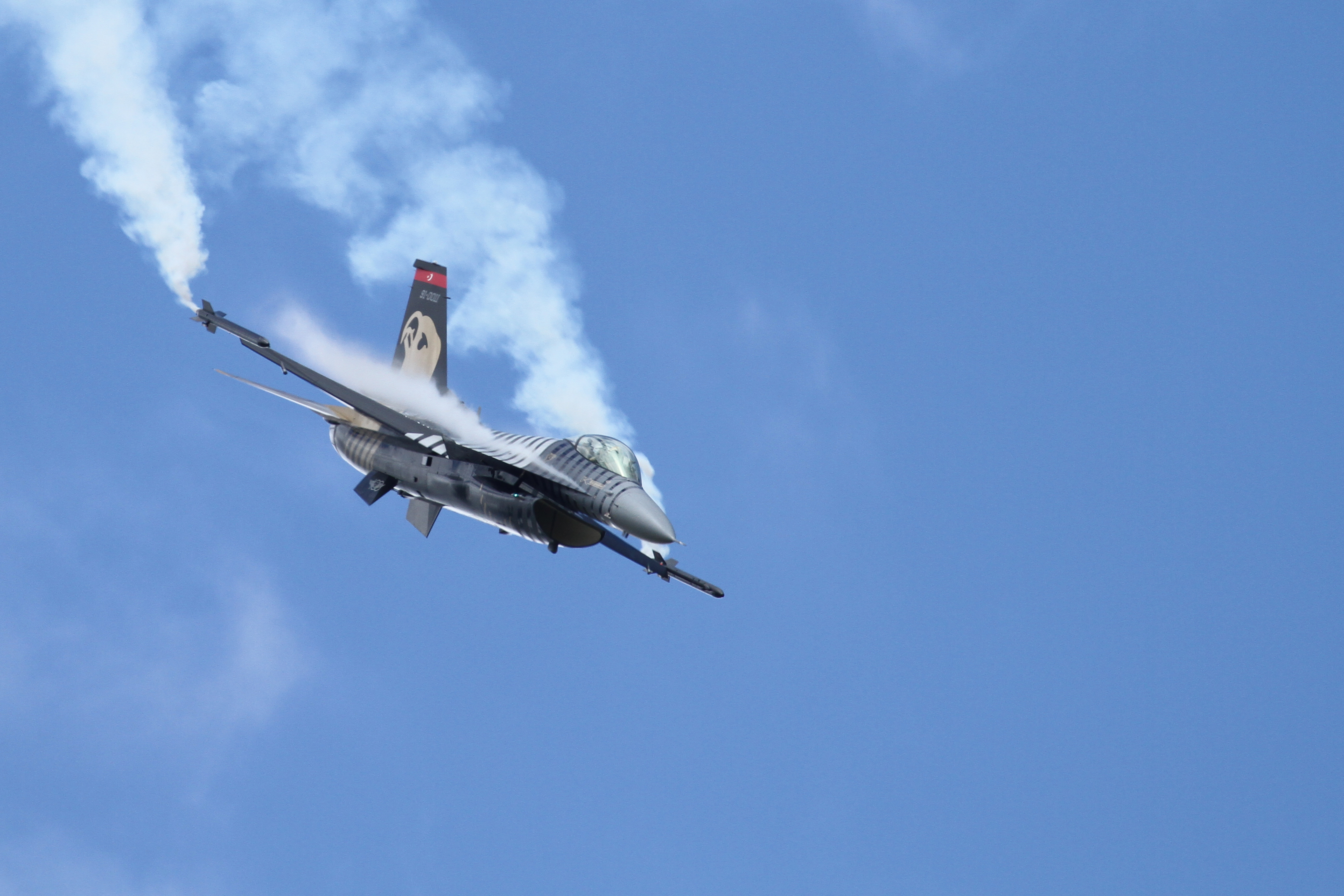 F-16C Fighting Falcon 14